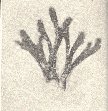 Dasycladus occidentalis Subject: Dasycladales Tag: Aquatic Botany